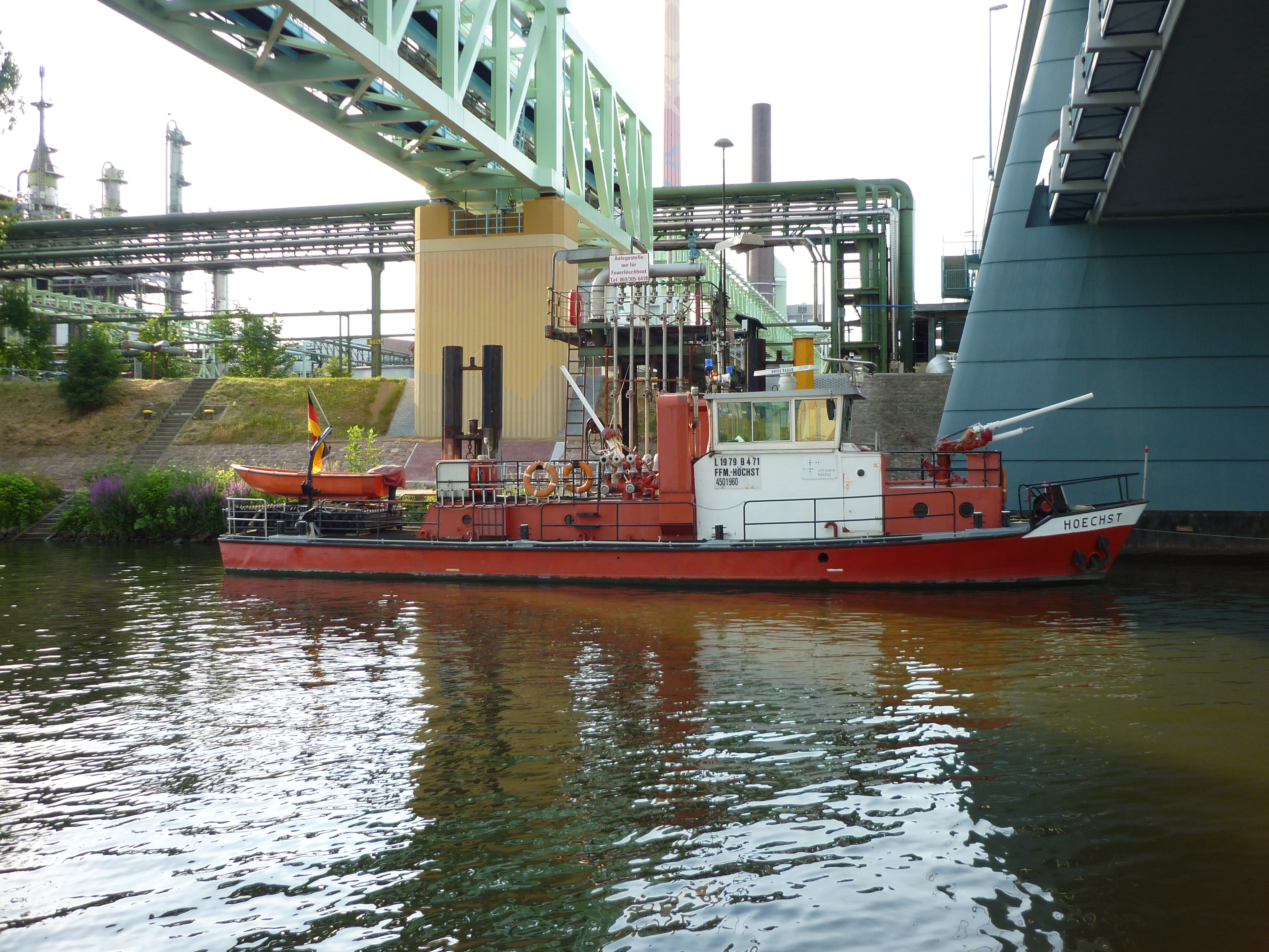 Fireboat Hoechst of the fire brigade of the Industriepark Höchst in Frankfurt am Main, Germany